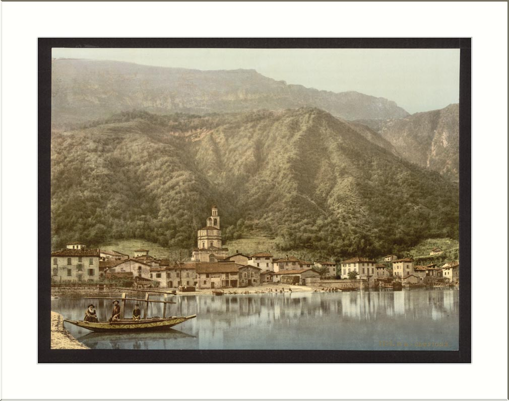 between ca. 1890 and ca. 1900. Title devised by LOC staff Print no. 1236. Views of architecture and other sites in Italy 1 photomechanical print : photochrom color. Library of Congress Prints and Photographs Division Washington D.C. 20540 USA Waterfront Campione Italy between ca. 1890 and ca. 1900. Title devised by LOC staff Print no. 1236. Views of architecture and other sites in Italy 1 photomechanical print : photochrom color. Library of Congress Prints and Photographs Division Washington D.C. 20540 USA